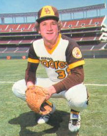 Professional baseball player Randy Jones